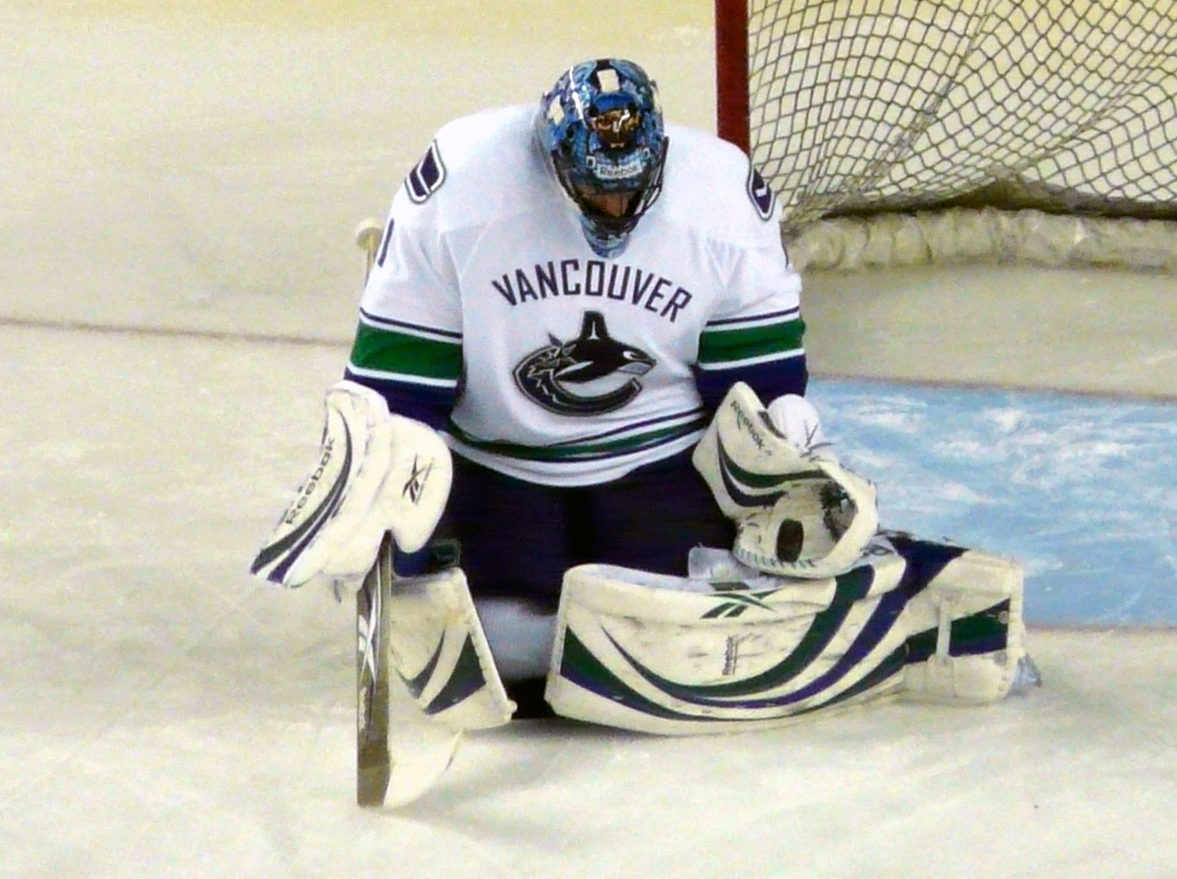 Vancouver Canucks goaltender Roberto Luongo during a pre-game warm-up against the Calgary Flames on February 17, 2009.